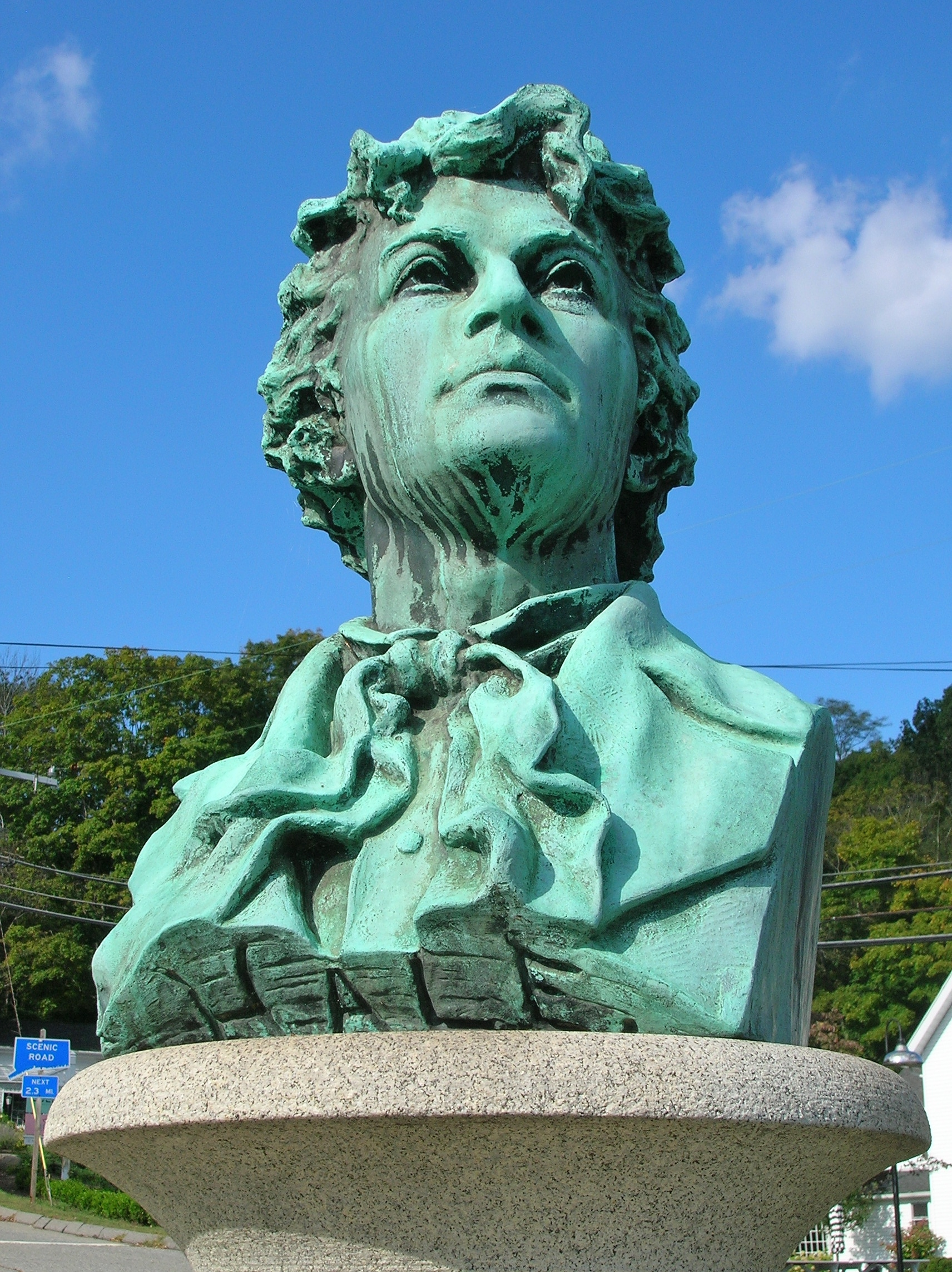 Photograph taken 9/29/2018 of the Nathan Hale statue (bronze bust), sculpted by Enoch Smith Woods between 1885 and 1900 (according to the inscription on the side of the bust). The statue is located in the center of East Haddam, CT.